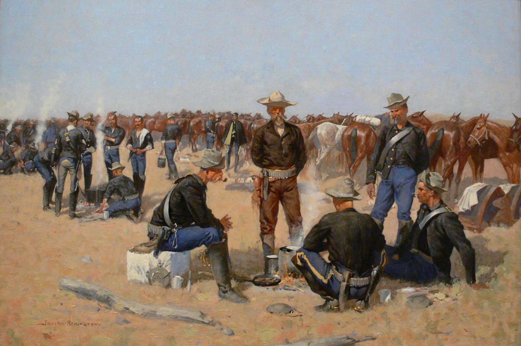 A Cavalryman's Breakfast on the Plains